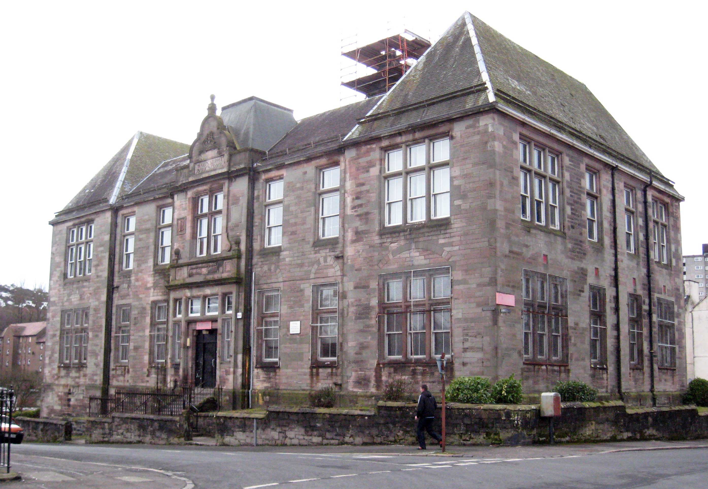 Mearns Street Public School building in Greenock, now used as the Mearns Centre